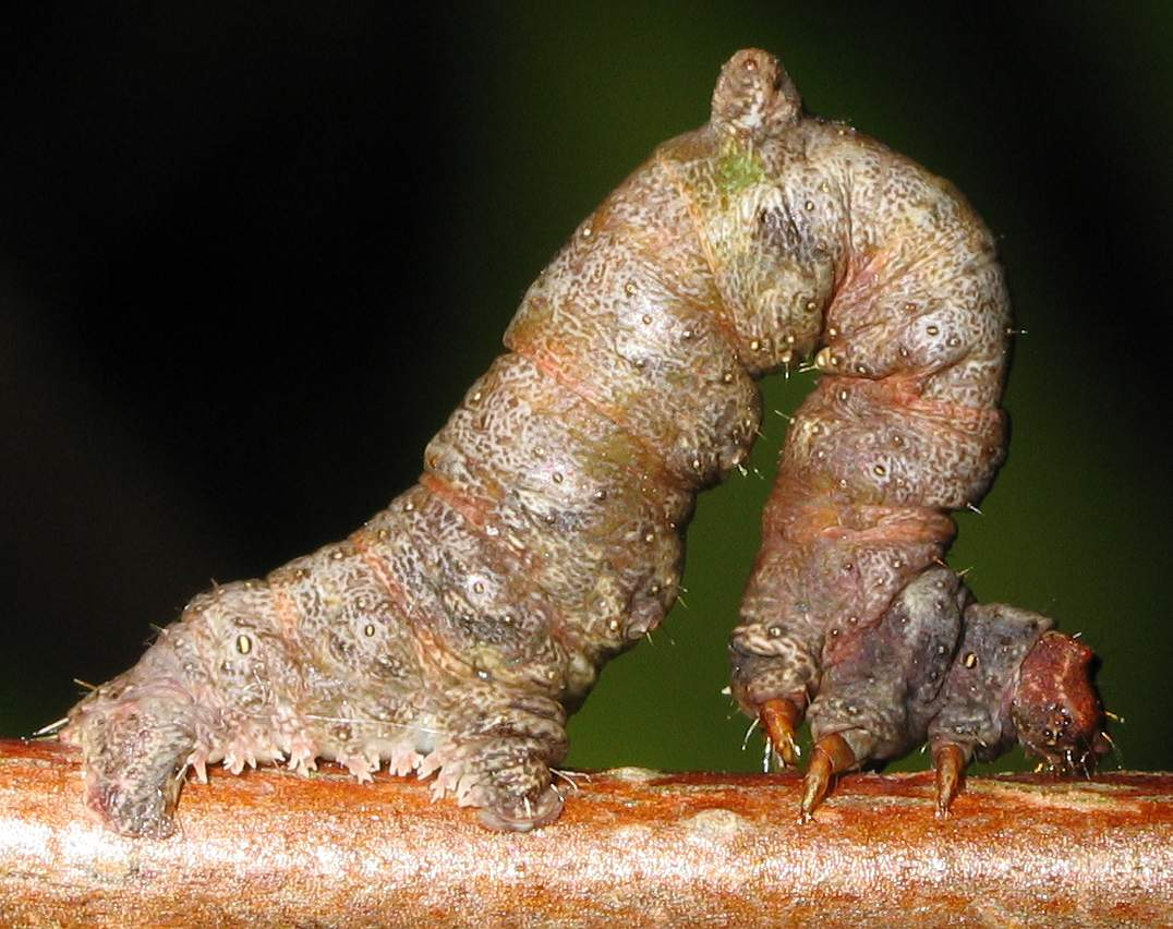 Caterpillar of a Brimstone Moth(Opisthograptis luteolata). Author: soebe Date: October 03, 2005 Location: Eckernförde, Northern Germany Taken by Soebe in Northern Germany (Eckernförde) and released under GNU FDL.